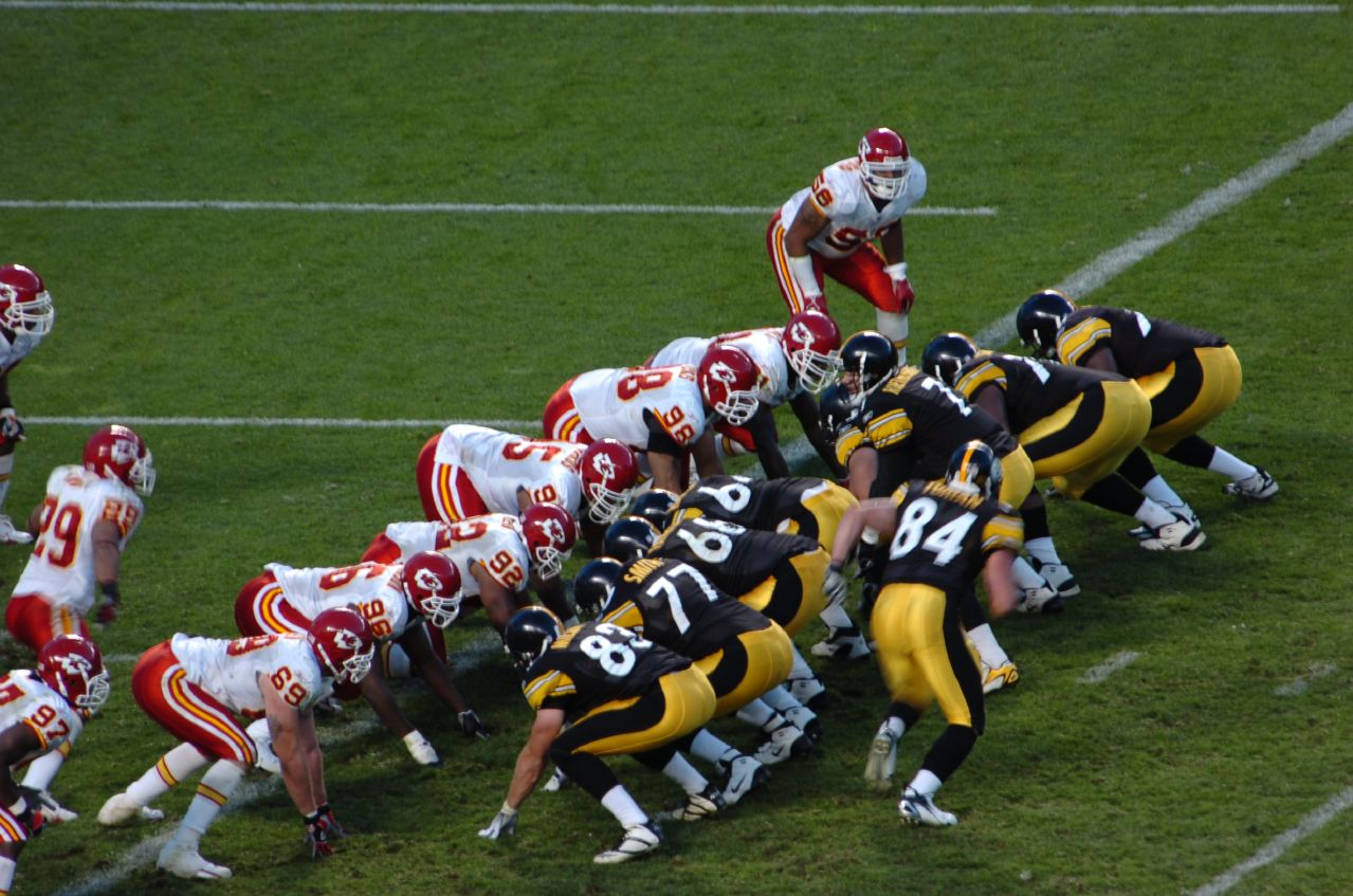 The Pittsburgh Steelers and Kansas City Chiefs line up for a play on the goal line during an NFL game in 2006.